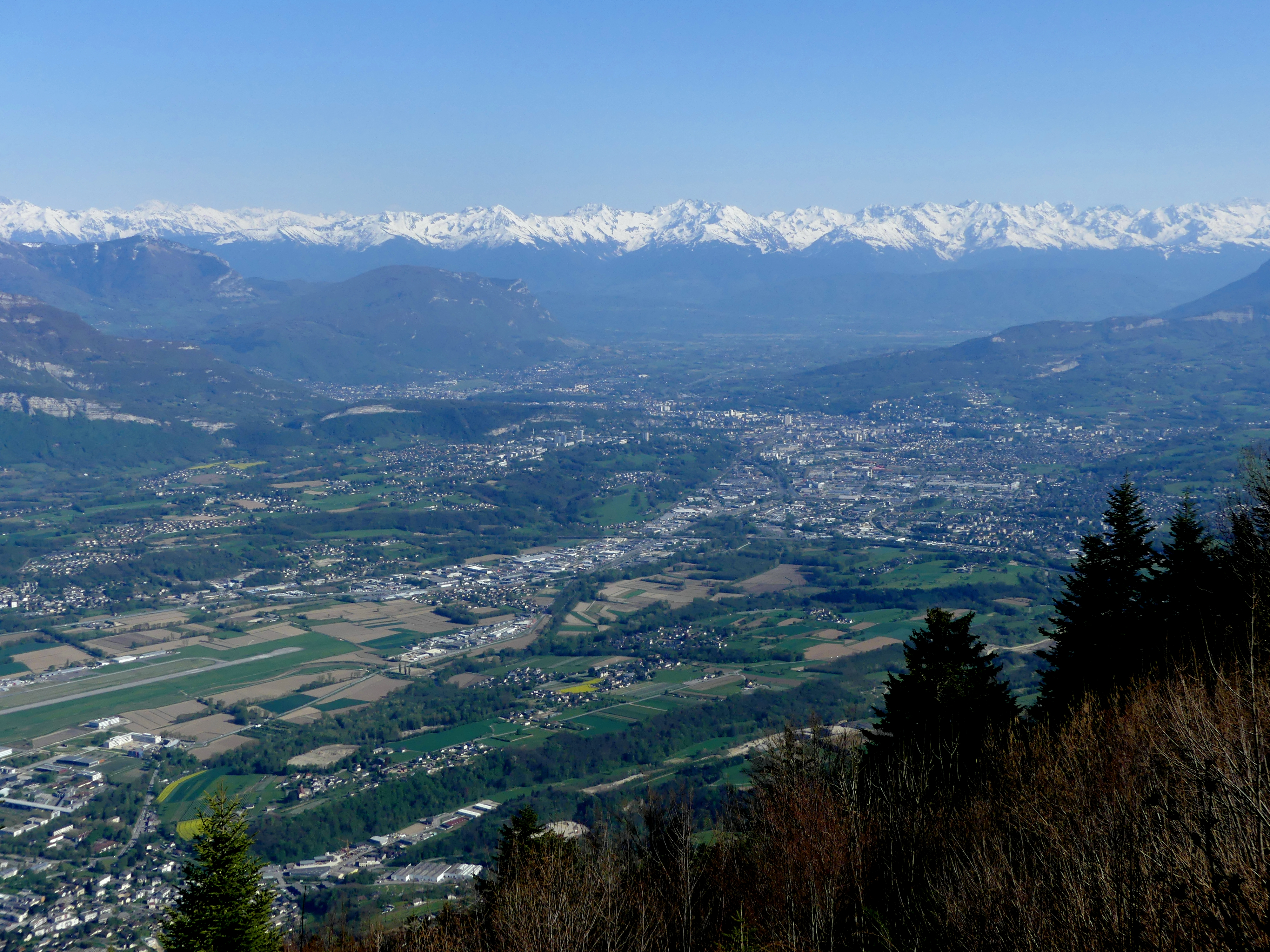 Sight, from the top of the Mont du Chat mountain (1,500 meters high), of the cluse de Chambéry broad valley, with city of Chambéry and the snow-covered Belledonne mountain range, in Savoie, France.